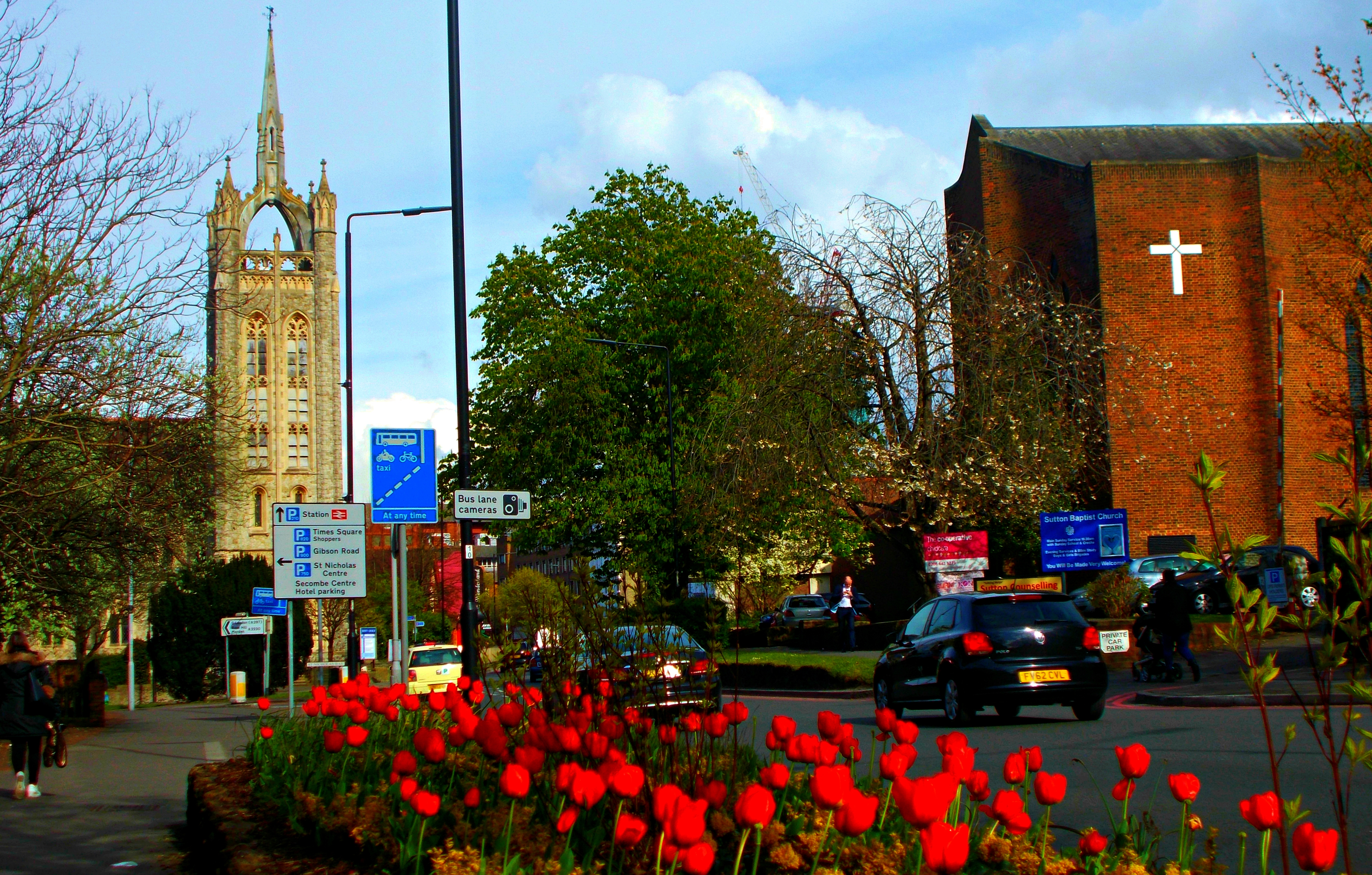 Sutton is 10 miles from central London.